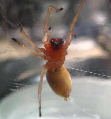 Cheiracanthium punctorium caught in a glass. The spider dropped three legs in captivity.